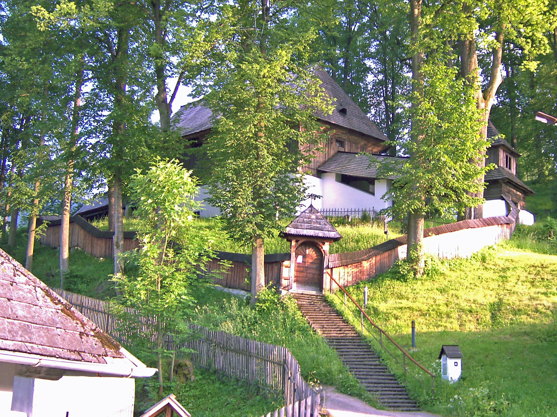 The wooden church of Lestiny/Slovakia